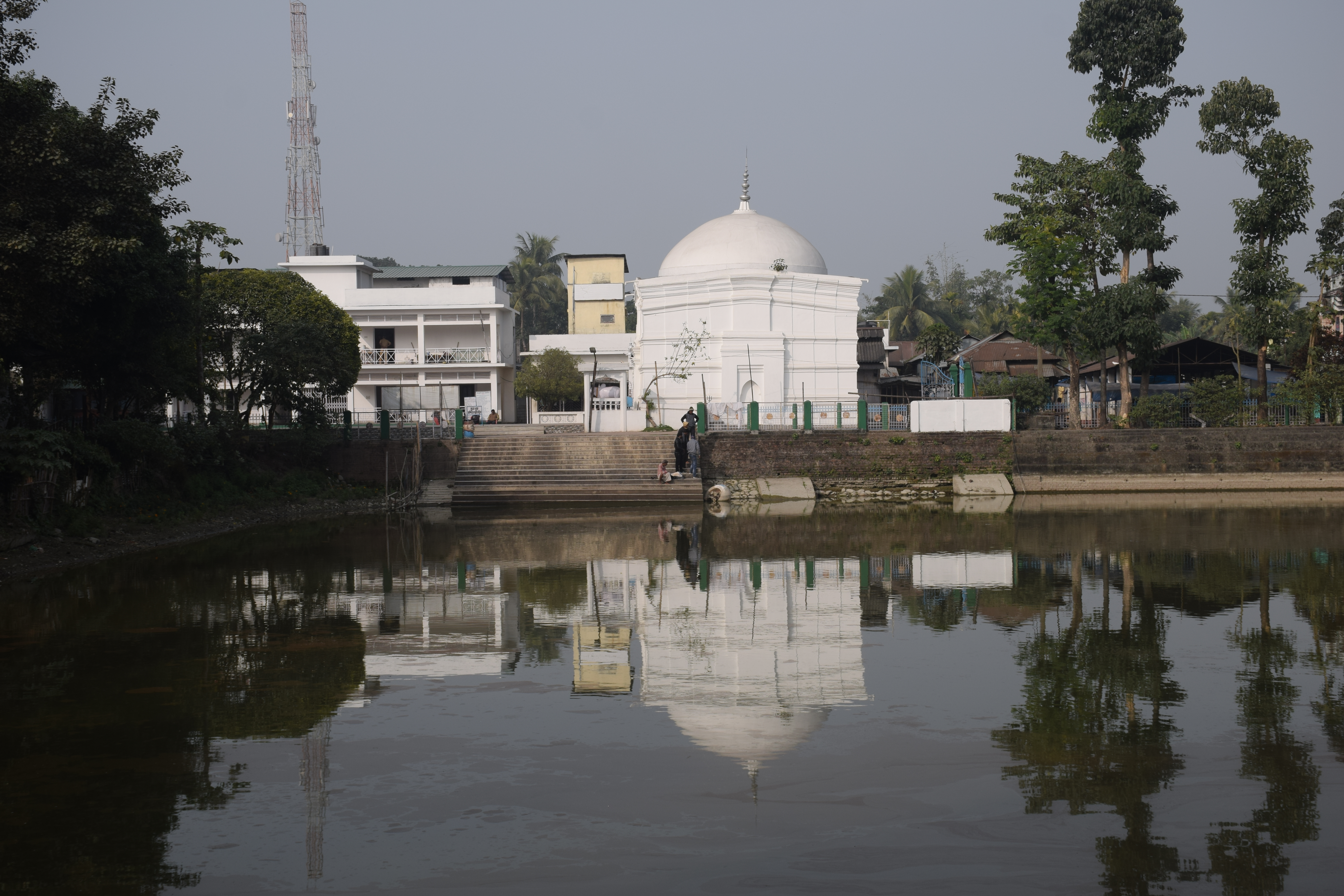 Baneshwar Shiva Temple at Cooch Behar District in West Bengal.